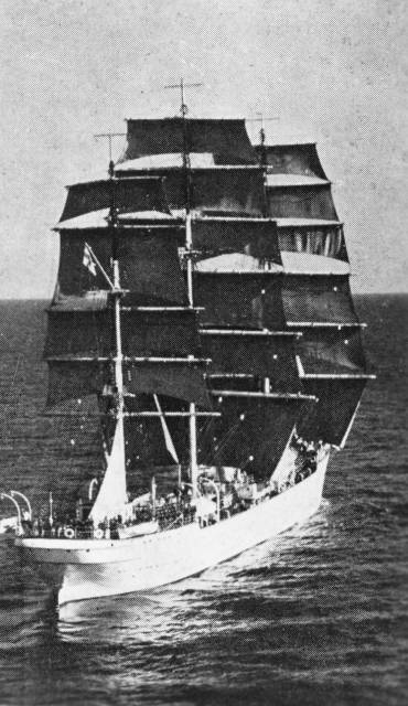 Finnish full rigged school ship Suomen Joutsen photographed from the Italian liner SS Rex.